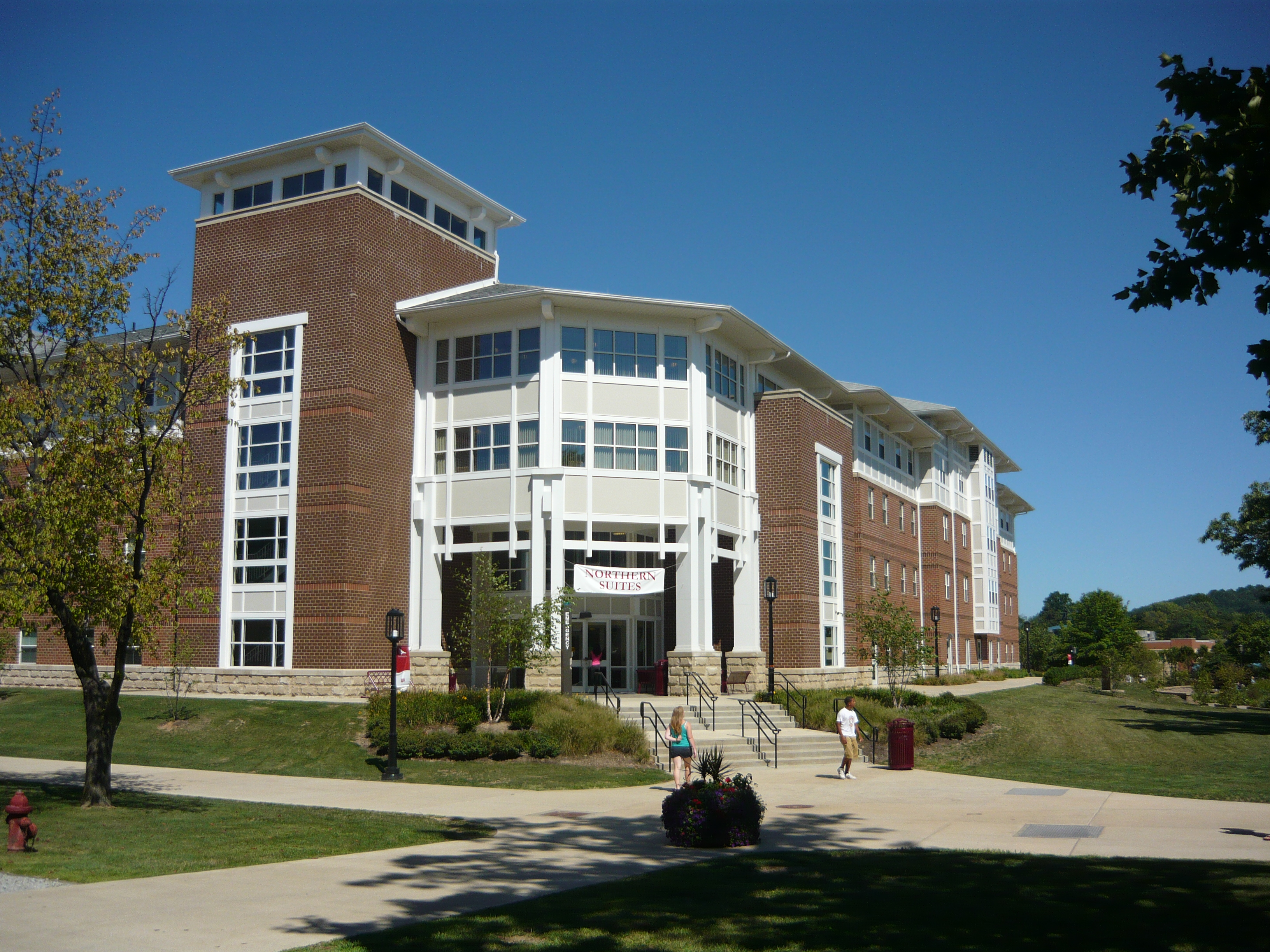 Northern Suites, a residence hall at 955 Oakland Avenue, Borough of Indiana, Pennsylvania. Built 2008. On the campus of Indiana University of Pennsylvania (IUP).